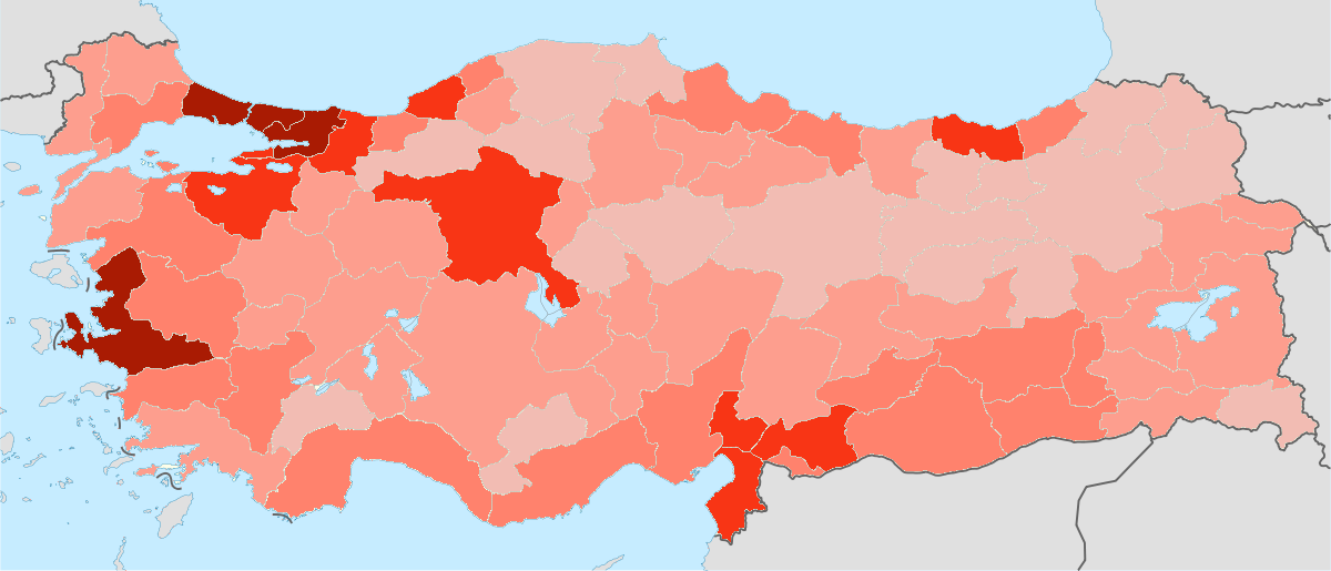 Turkstat